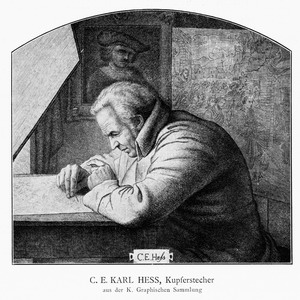 The german painter Carl Ernst Christoph Hess (1755-1828)